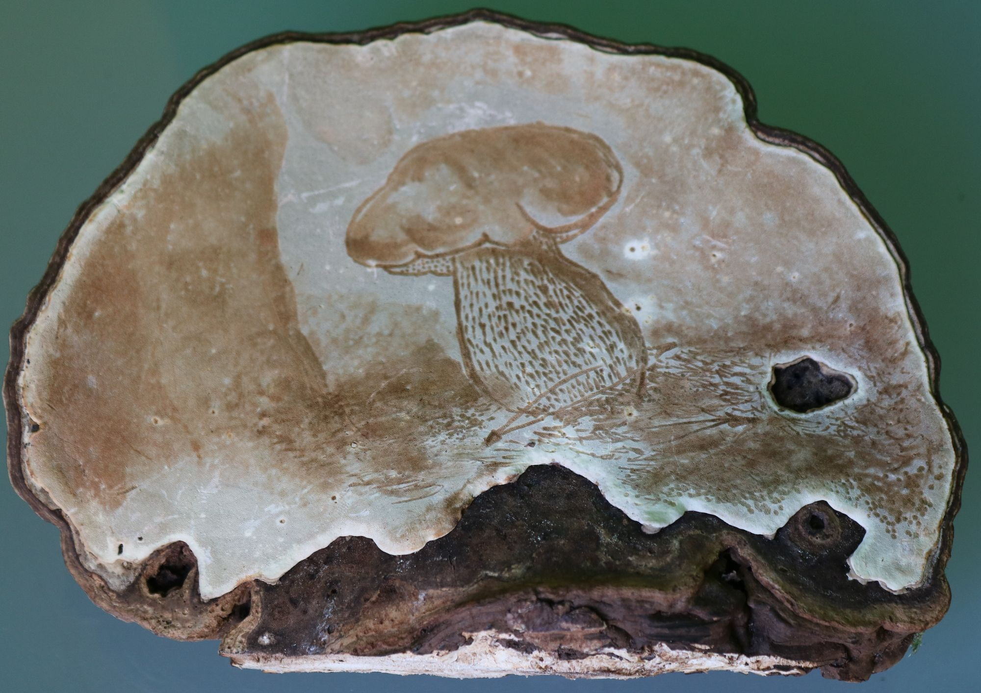 Artist's conk mushroom (scientific name: Ganoderma applanatum) with a drawing on it's lower side. The drawing shows another mushroom species - Boletus pinophilus. Made in Germany.